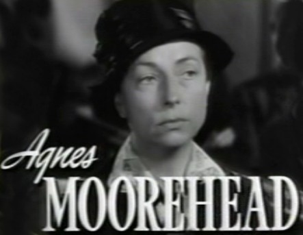 Cropped screenshot of Agnes Moorehead from the trailer for the film Johnny Belinda